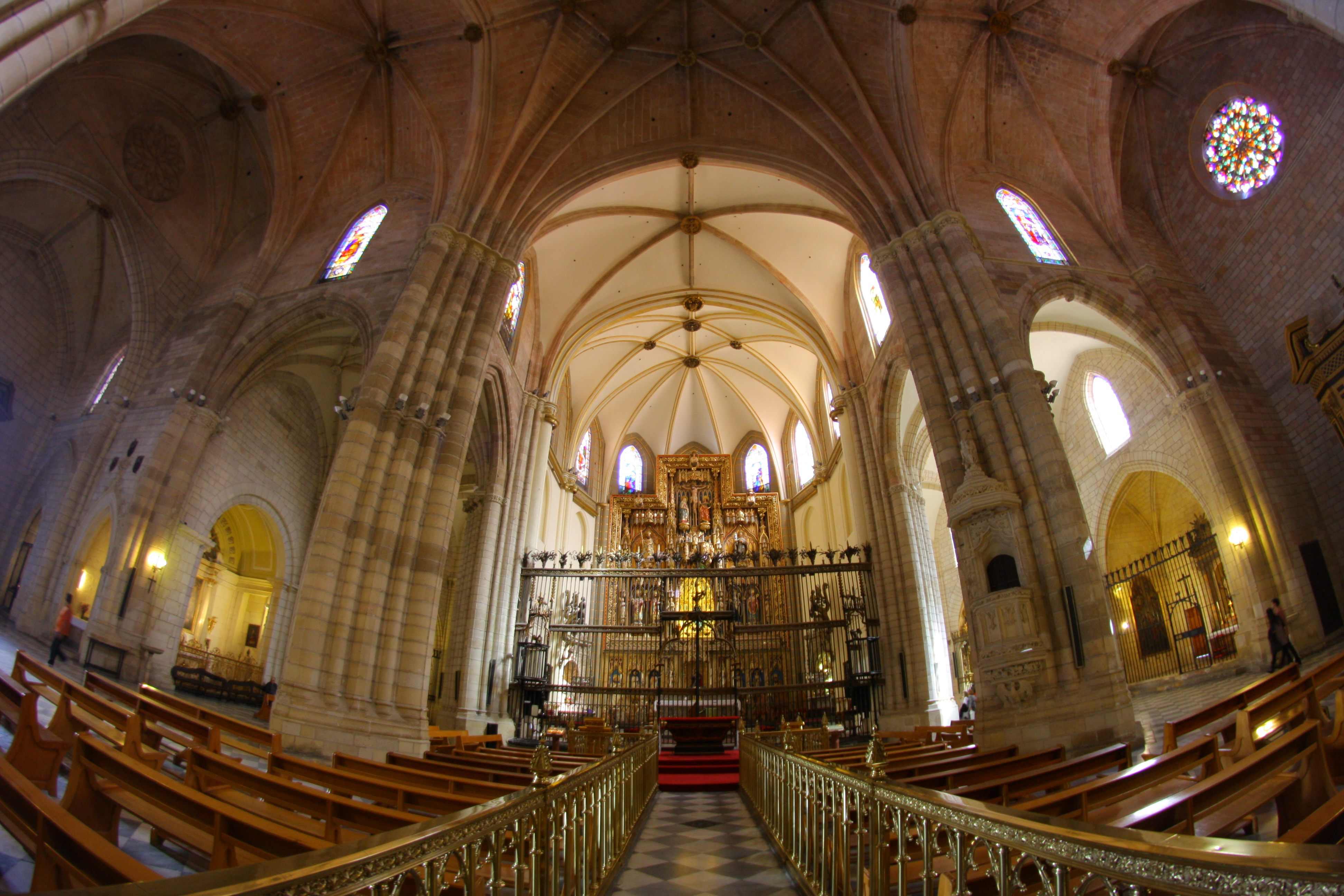 So a friend brought me a fisheye and I decided to take some pictures in my town. This is the Cathedral of Murcia